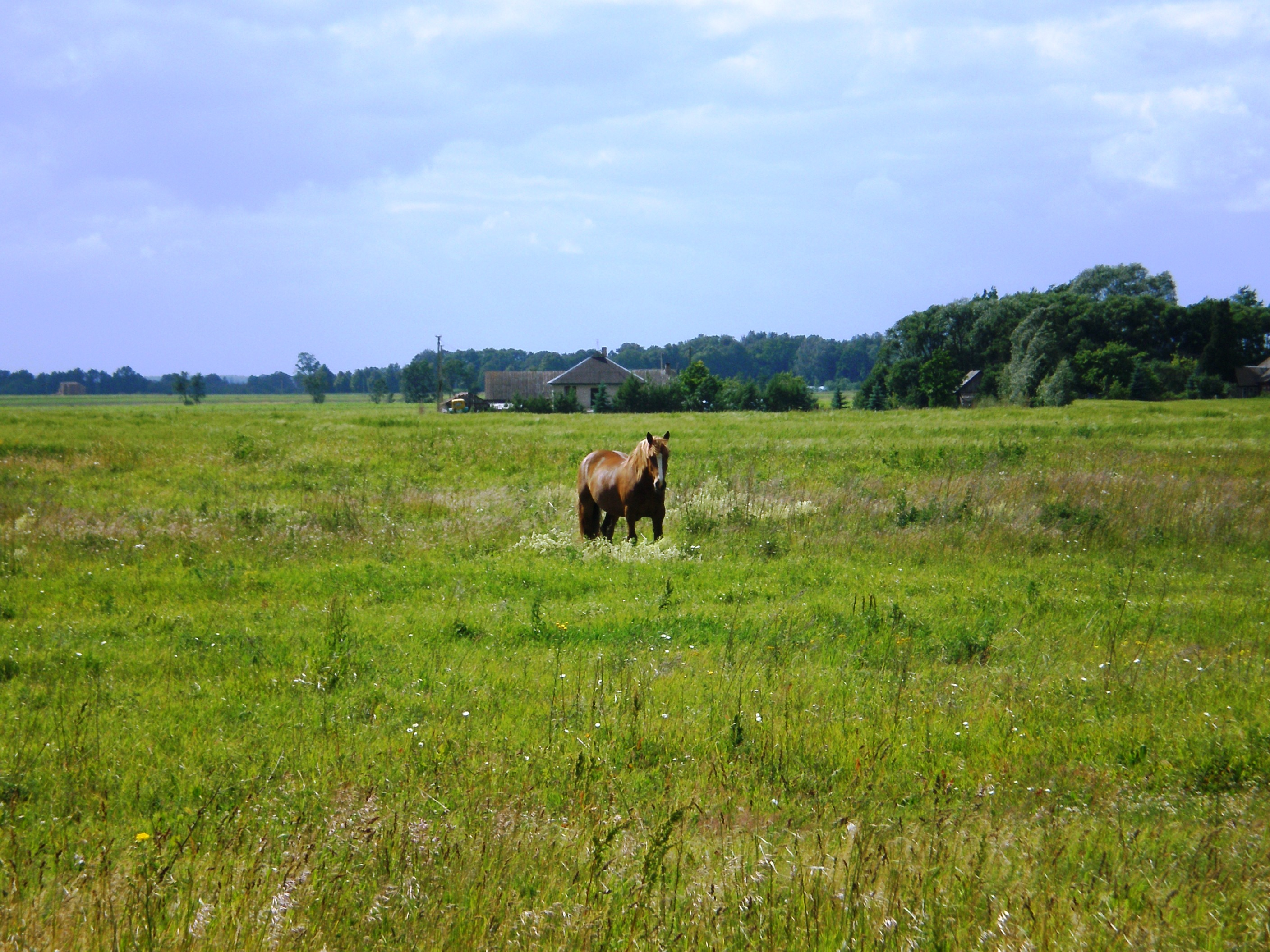 Countryside in Kėdainiai district